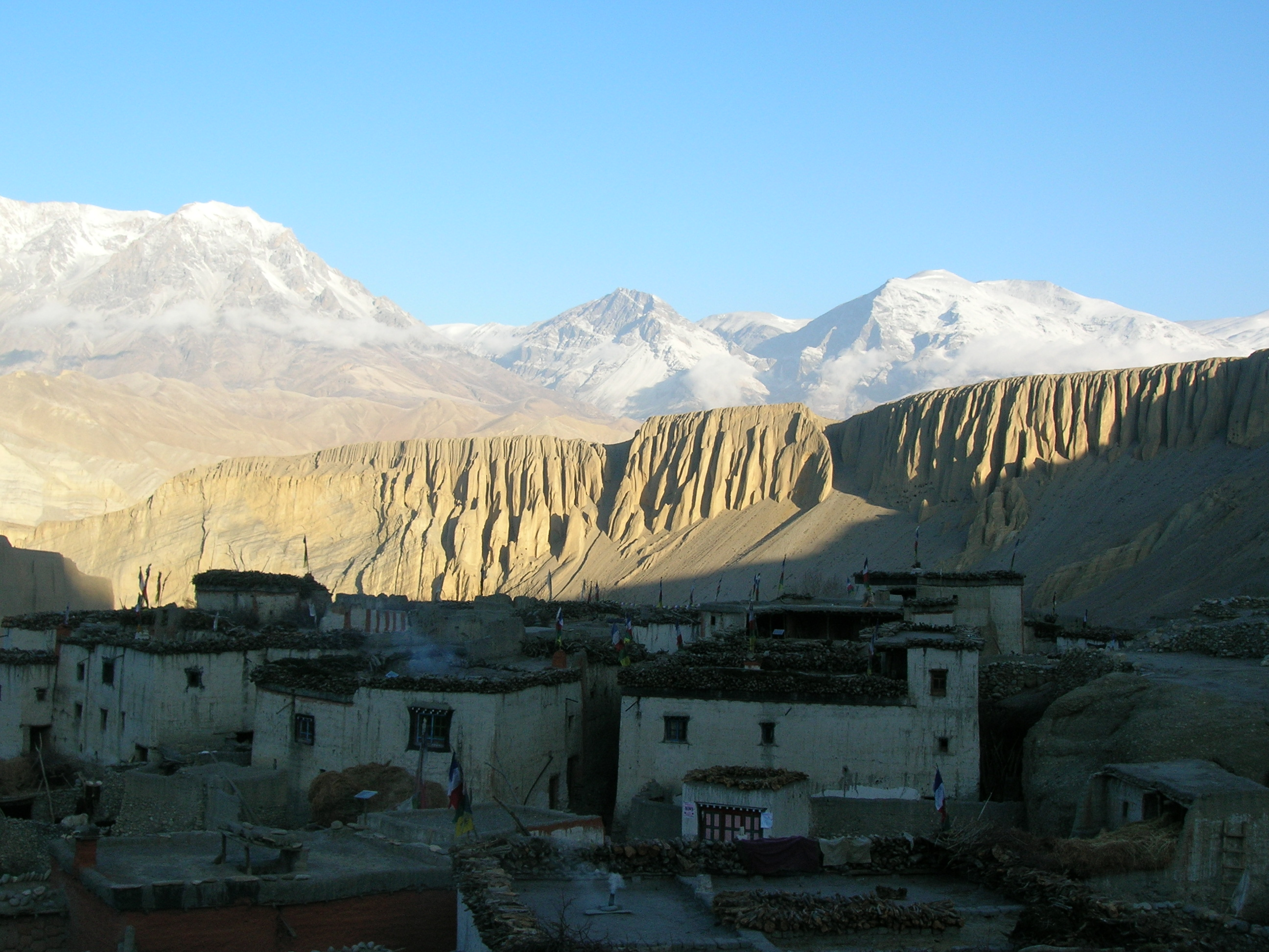 View of Tetang a village of the Kingdom of Mustang (Nepal)